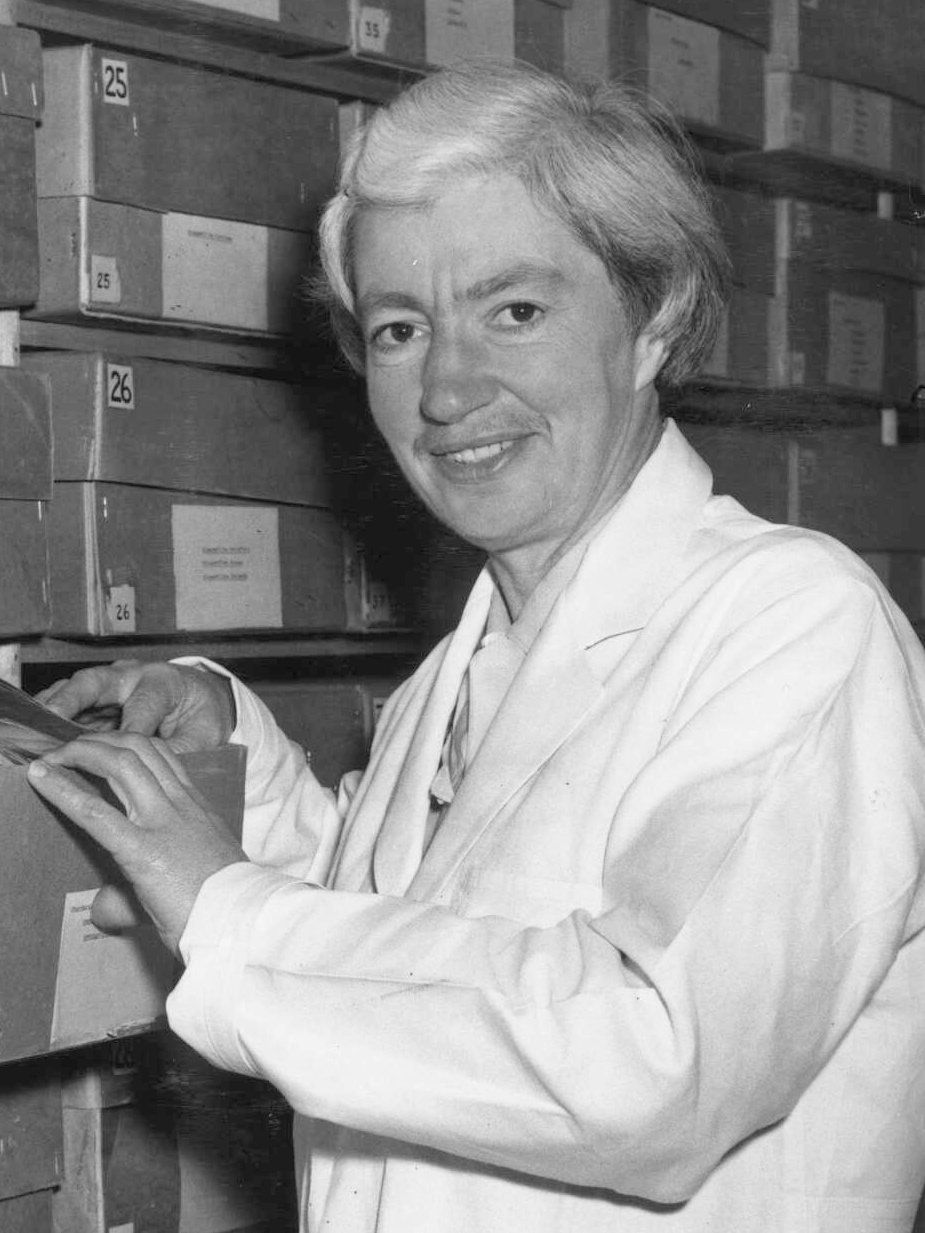 Lucy Beatrice Moore, circa June 1959. Photographer unidentified.